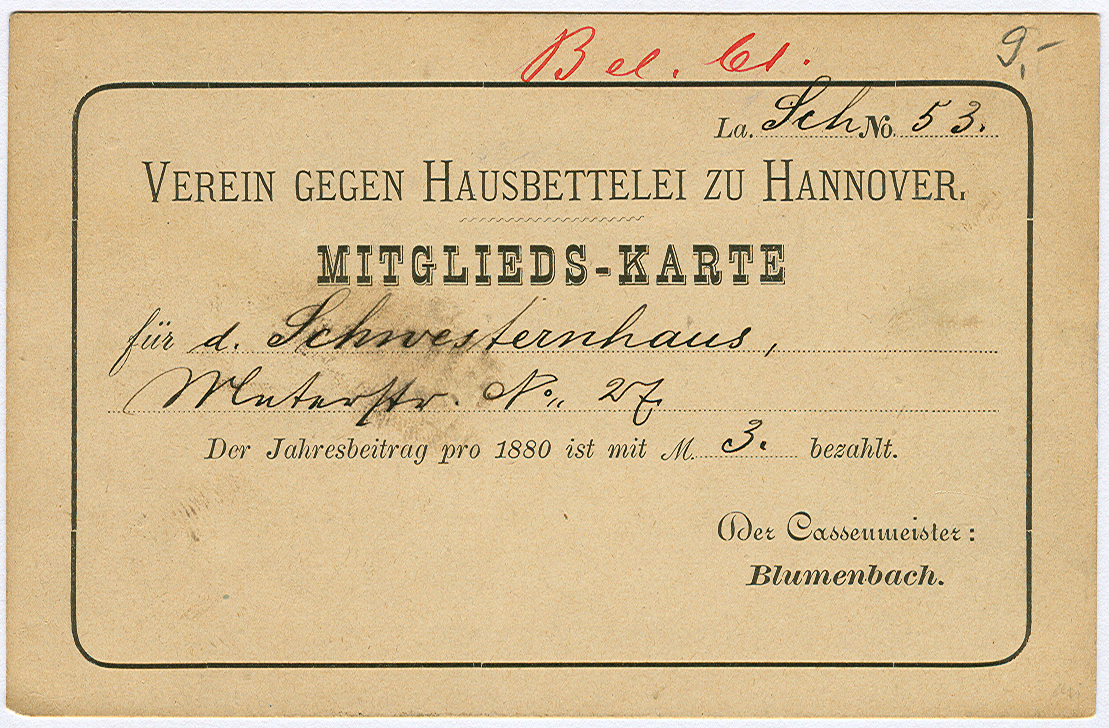 Thanks to all my friends and helpers